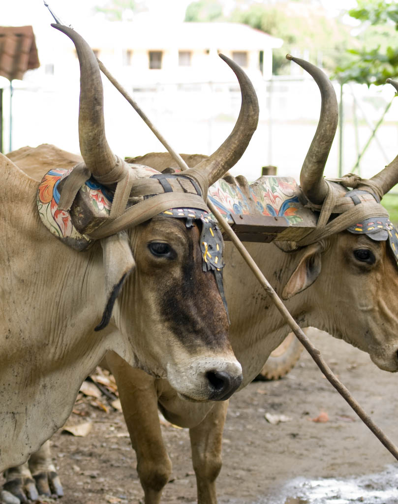 Two oxen in Costa Rica.